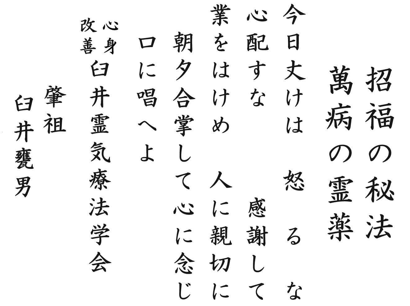 The Five Reiki Precepts